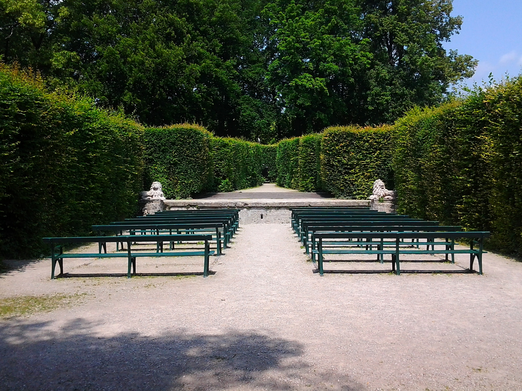 Hedge theatre in the garden of Mirabell Castle, city of Salzburg, Austria.